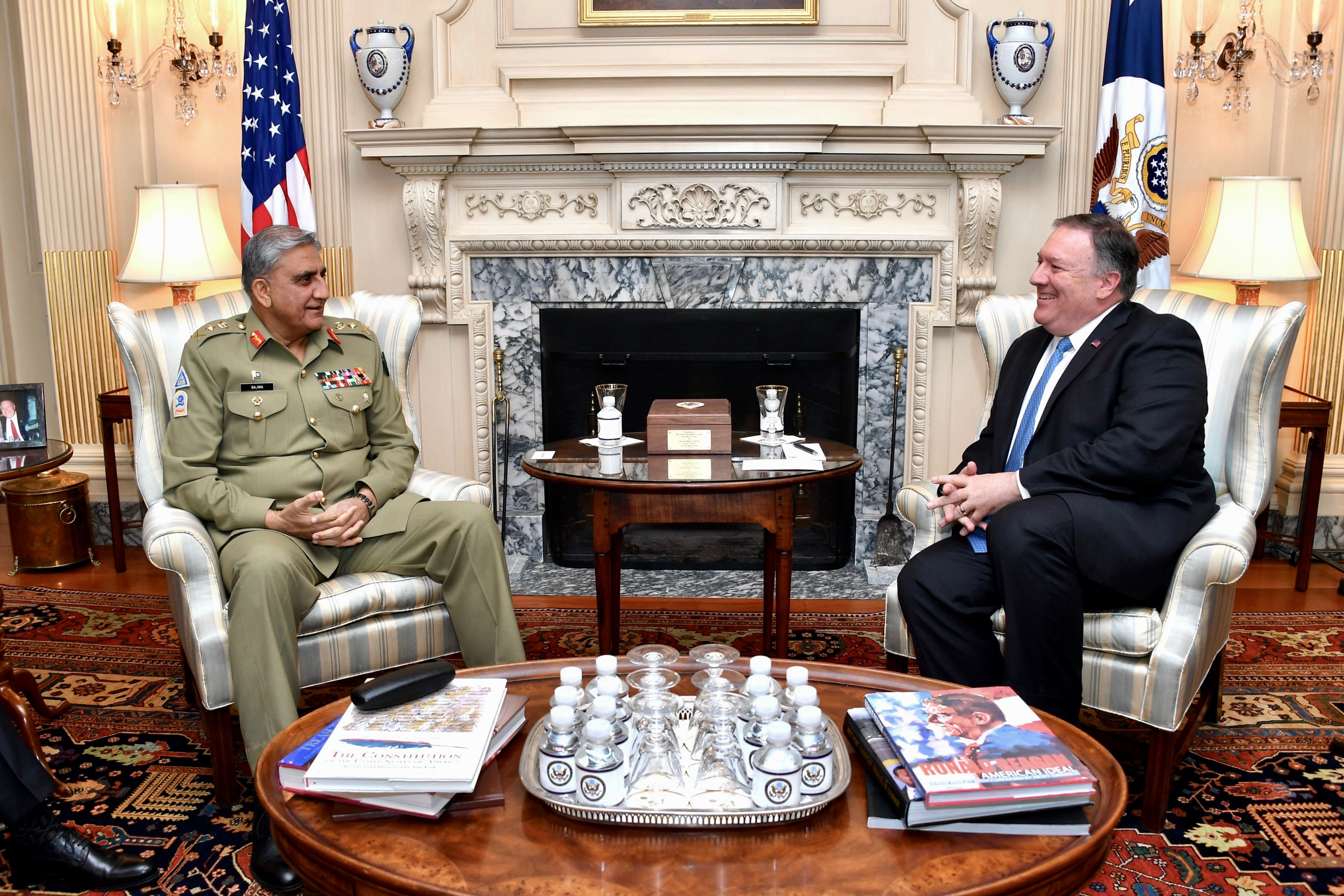 U.S. Secretary of State Michael R. Pompeo meets with Pakistani Chief of Army Staff General Qamar Javed Bajwa Nishan-i-Imtiaz, at the U.S. Department of State in Washington D.C., on July 23, 2019. [State Department photo by Michael Gross/ Public Domain]